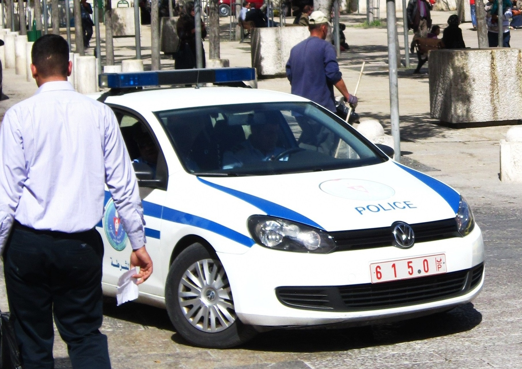 Palestinian territories police licenseplate